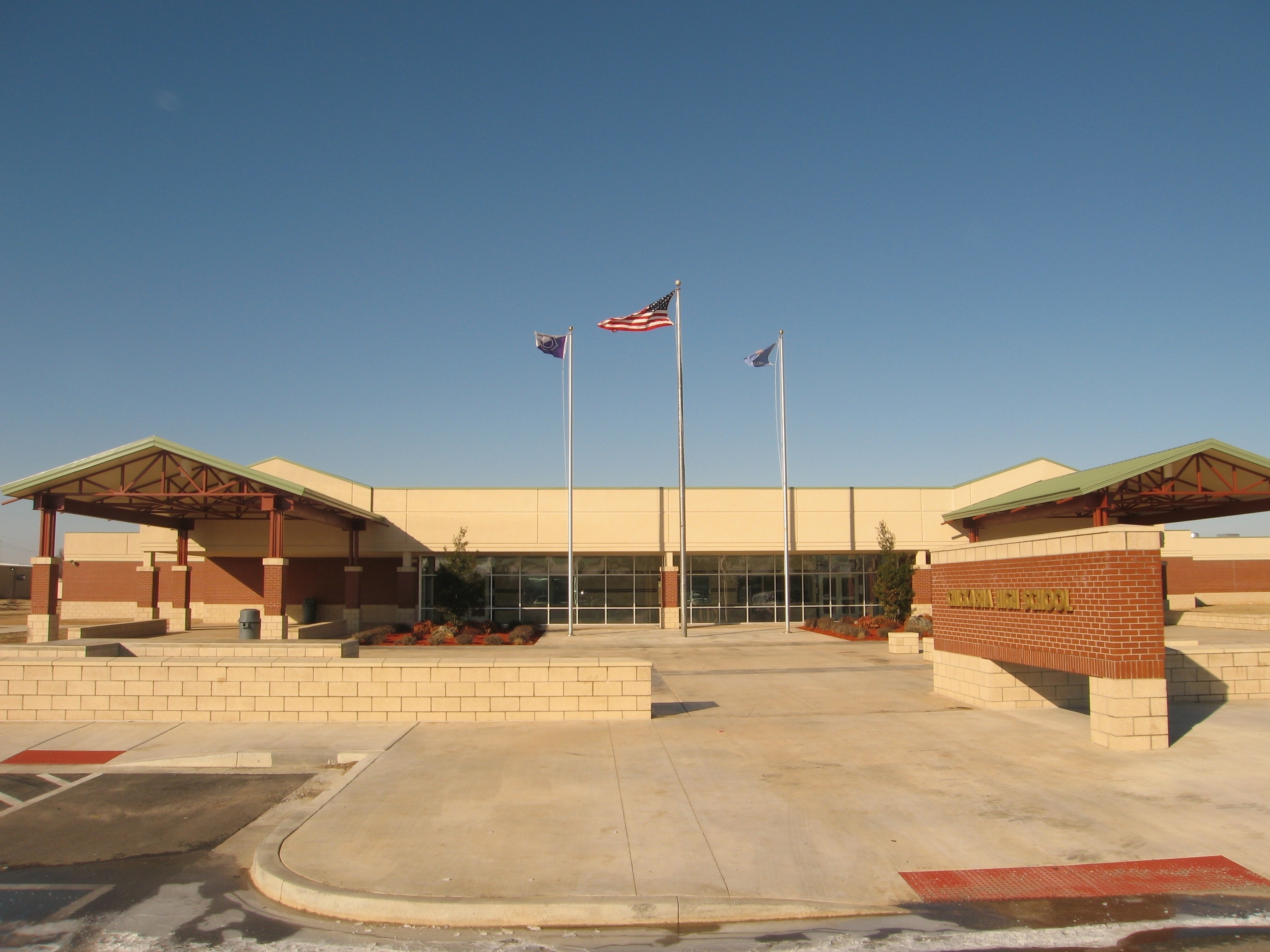 Front of High School